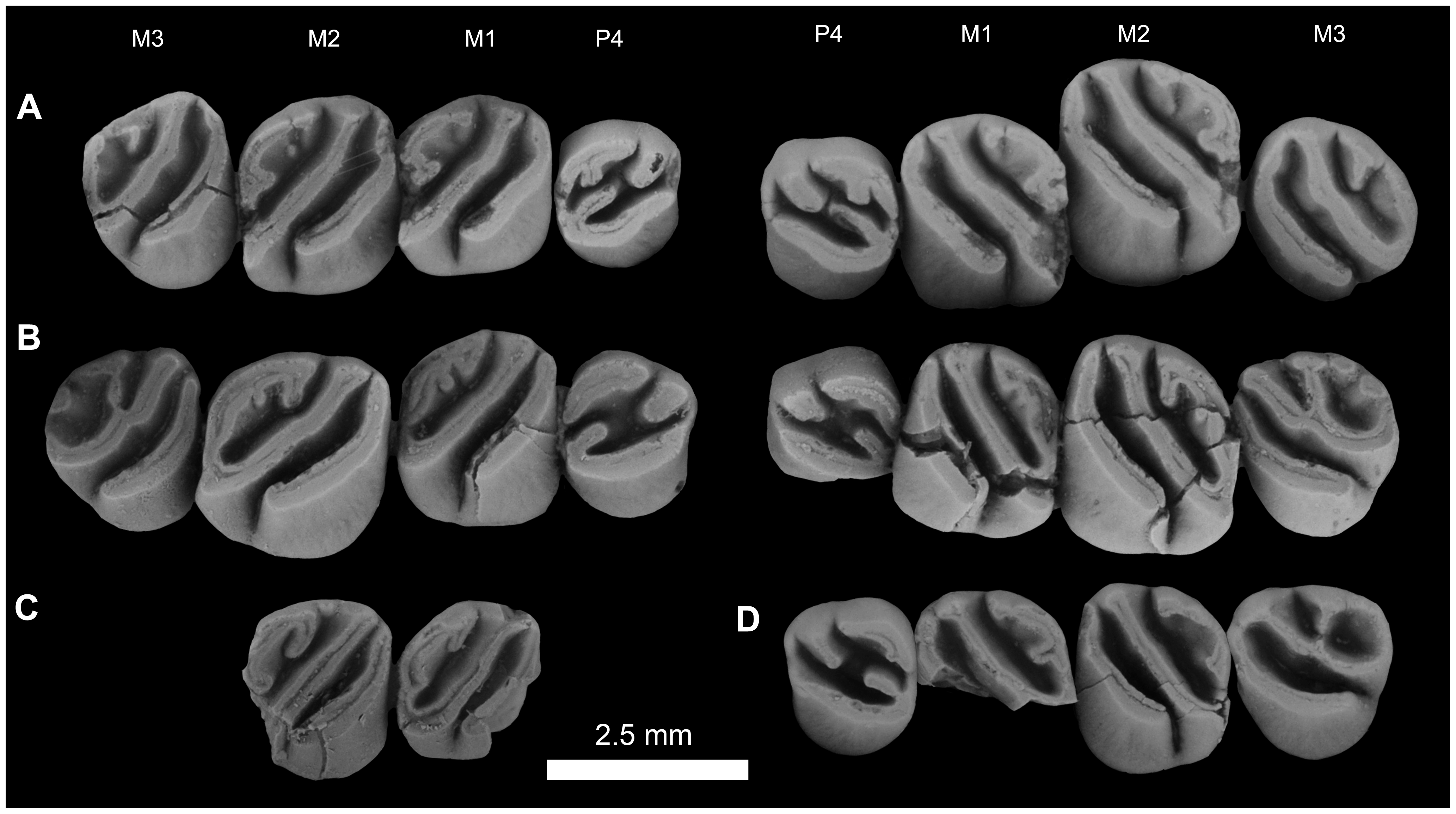 Gaudeamus upper teeth of Gaudeamus hylaeus; A: DPC 15242, right P4-M3, left P4-M3; B: CGM 66007, right P4-M3, left M1–3; C: DPC 7772, right M1–2, broken; D: DPC 15147, left P4-M3 (M1 is broken). Apparent differences between two rows in the figure are due to the postmortem distortion and displacement of the crowns; Locality L-41, lower sequence of the Jebel Qatrani Formation, Fayum, Egypt; Upper Eocene